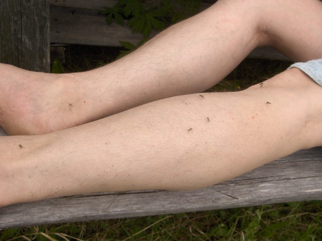 Mosquitos and extremely tiny midges (Ceratopogonidae) biting user's legs in a warm summer evening